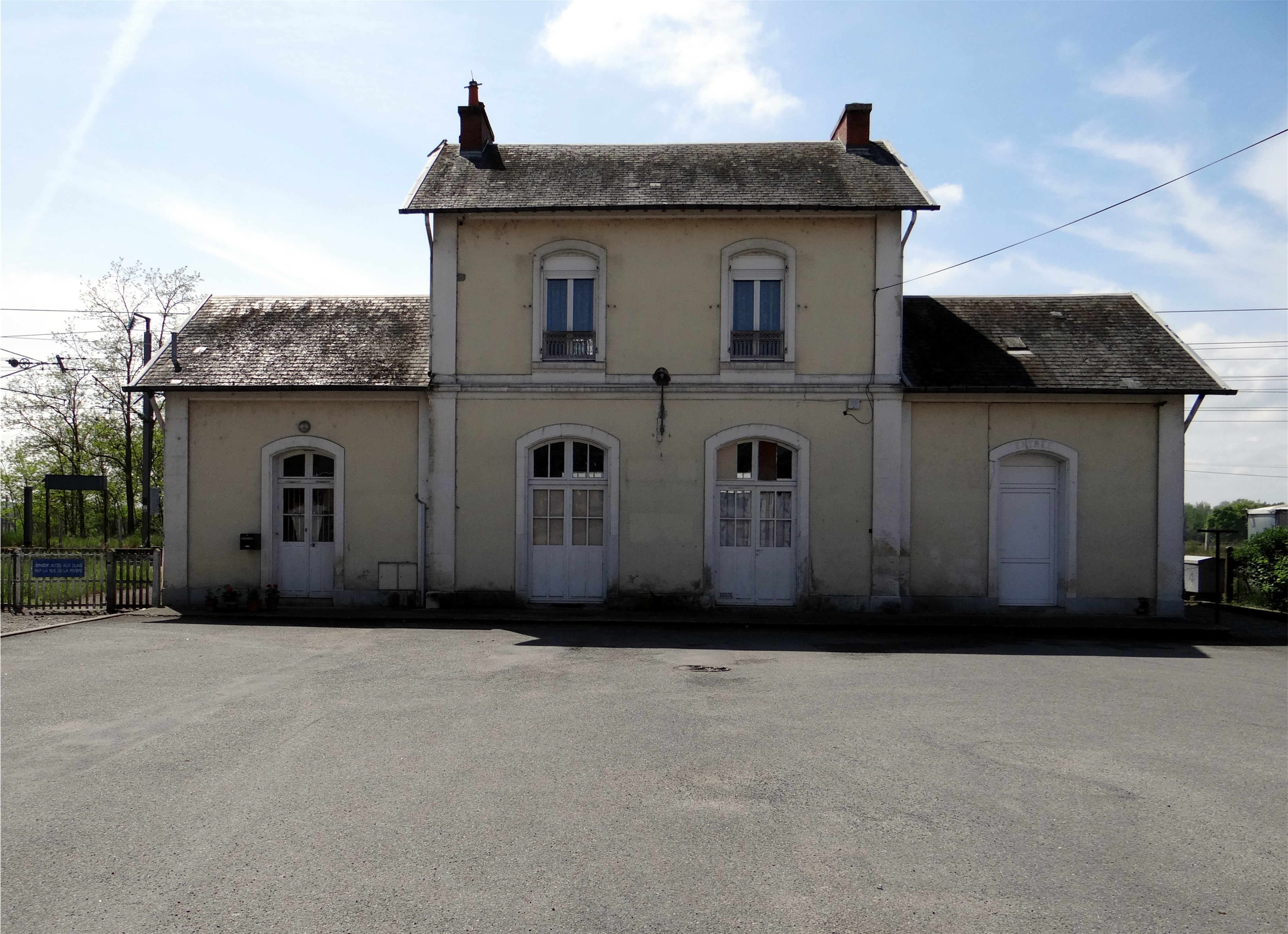 Railway station, Villeneuve-sur-Allier, Allier, France